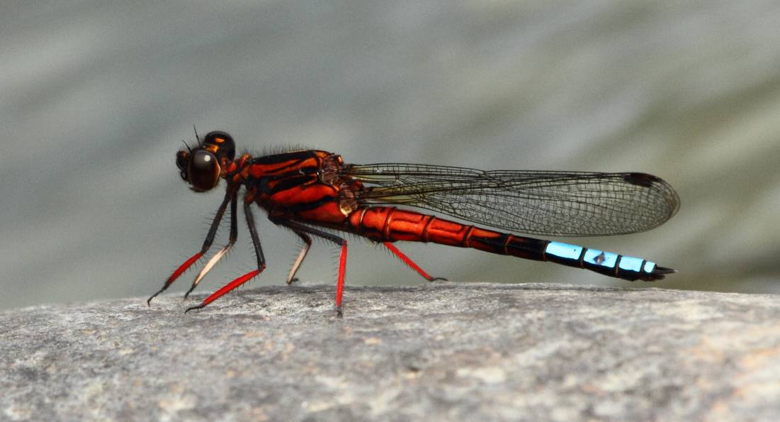 Male Boulder Jewel (Platycypha fitzsimonsi); KwaZulu-Natal. OdonataMAP record 7950